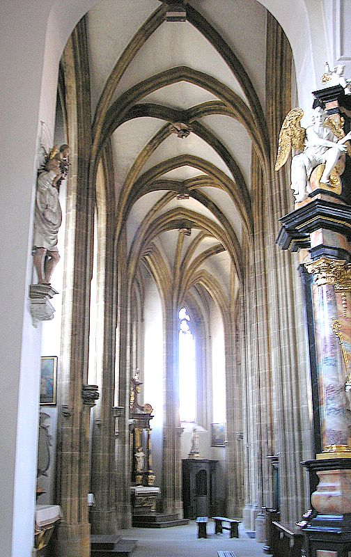 Obere Pfarrkirche Bamberg (Oberfranken). Blick in den Chorumgang. Eigene Aufnahme, April 2007 / Upper Parish Church (Bamberg, Upper Franconia, Germany). Northern aisle of the choir. Own photo, April 2007